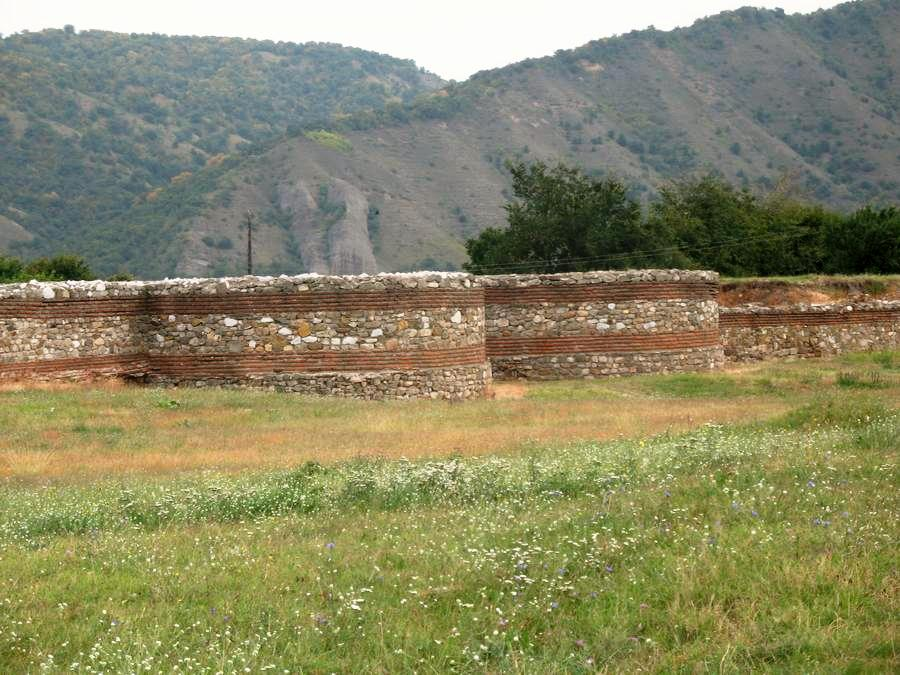 Diana castrum on Danube. Remaings of the main gate.